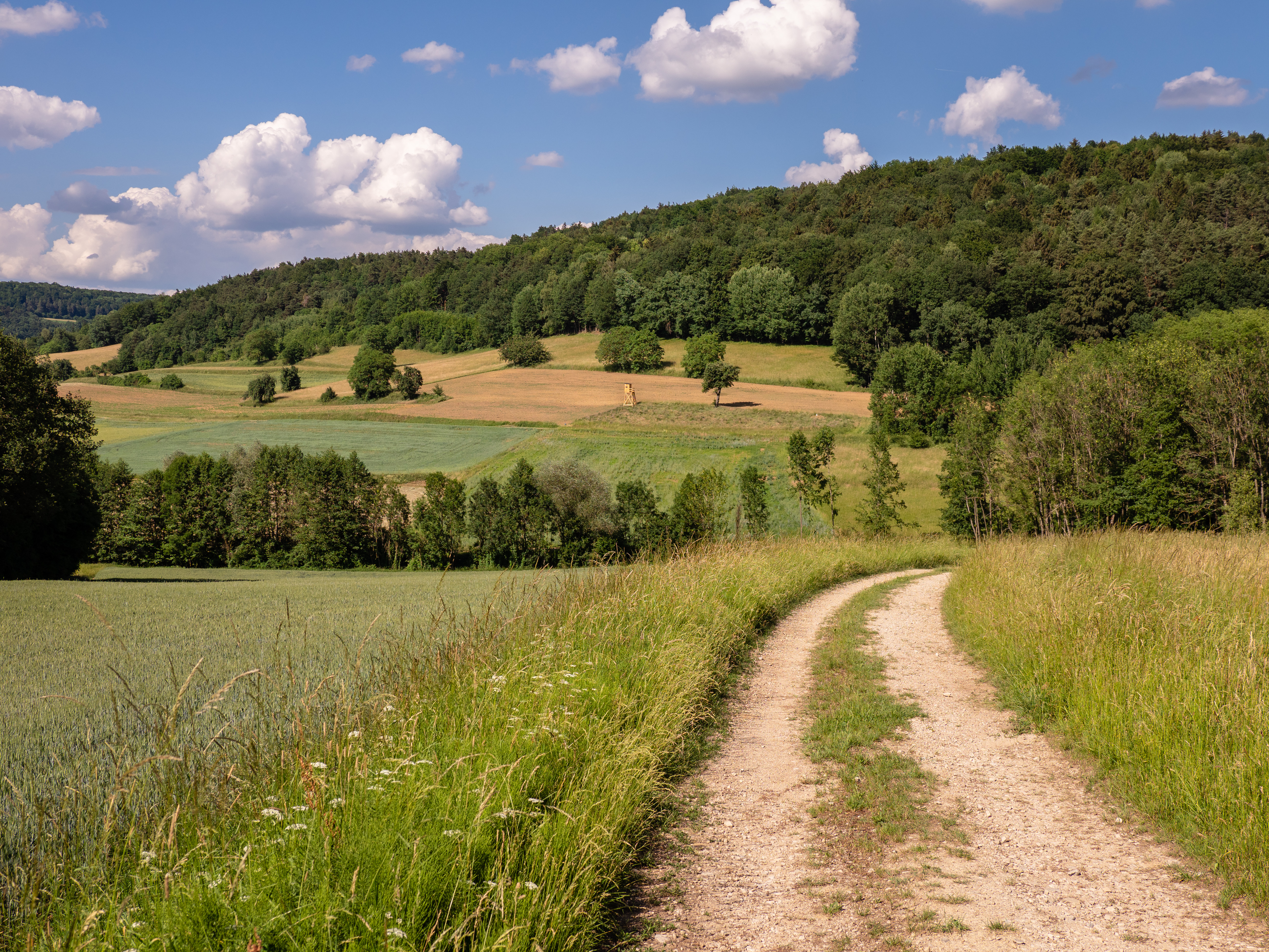 Landscape near Roschlaub in Franconian Switzerland